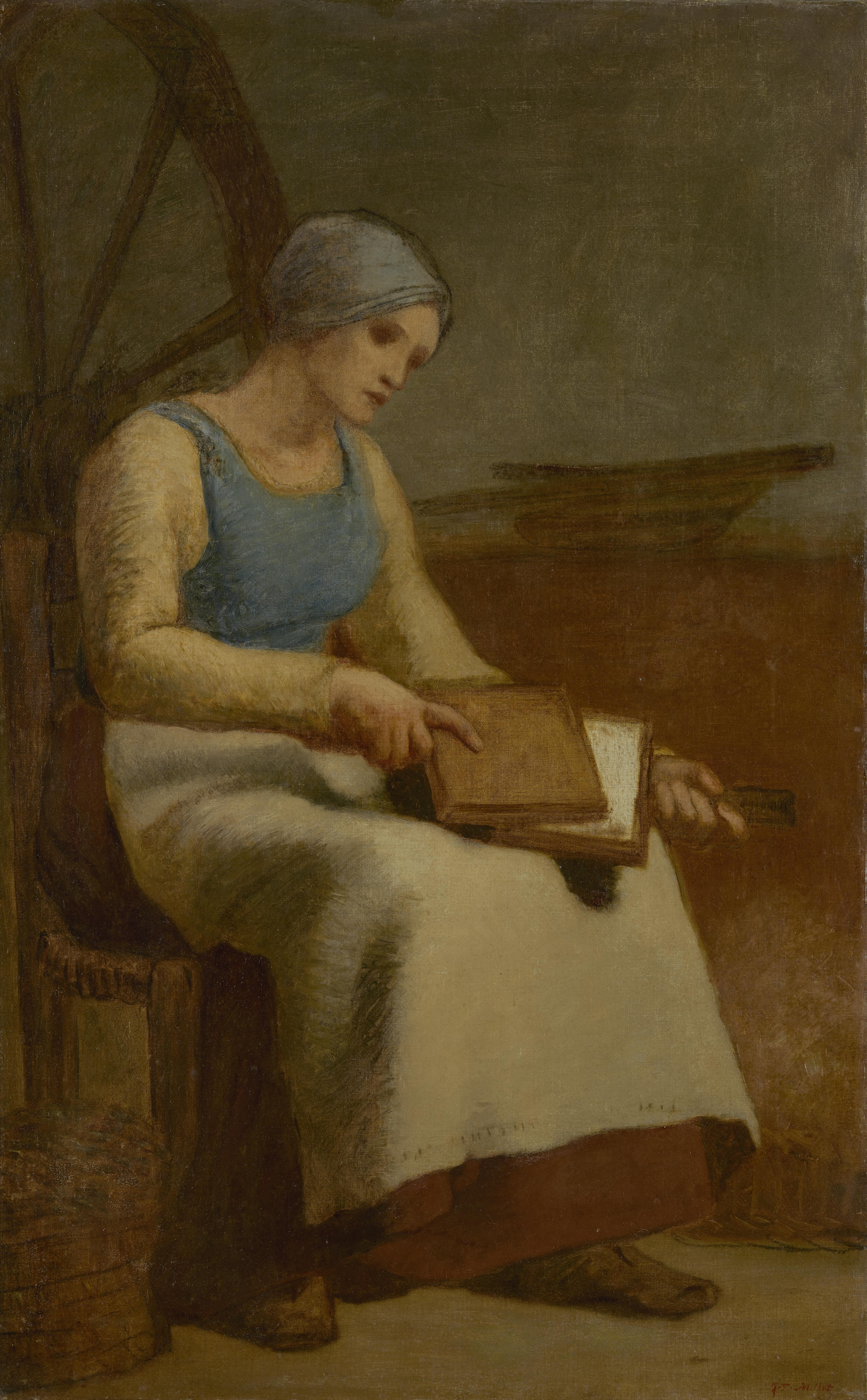 Painting by Jean-François Millet, 1856